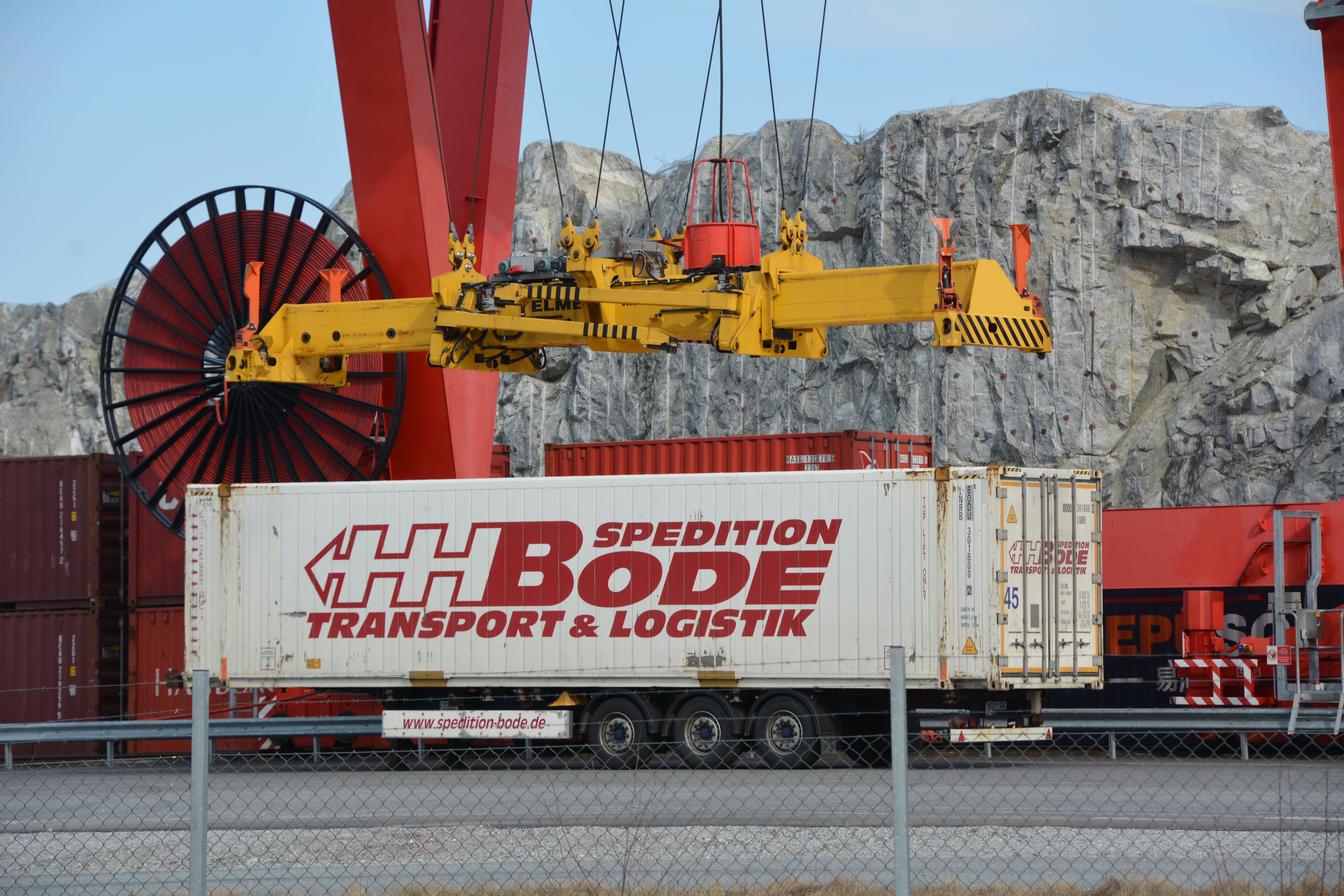 Lifted container at Logistikcenter Stockholm Nord